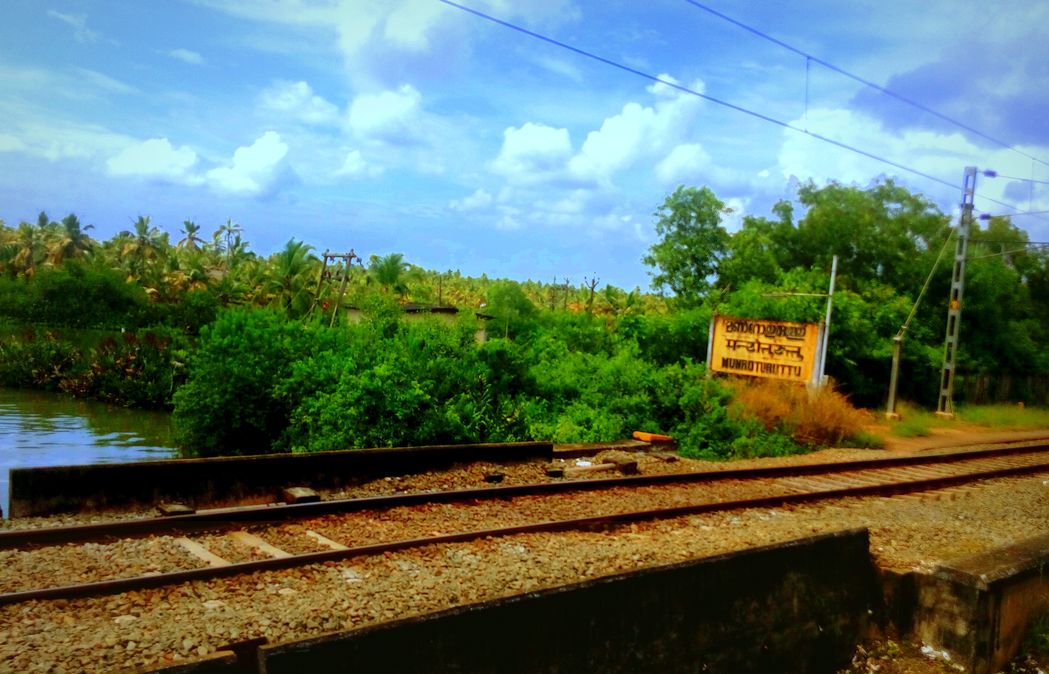 Munroturuttu railway station is a suburban railway station in Kollam Metropolitan Area